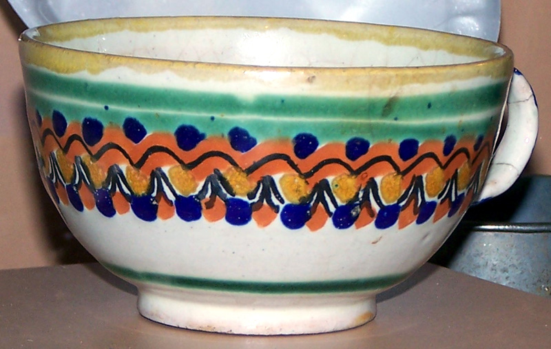 A majolica cup from Mexico (Origin date - unknown) on display at The Institute of Texan Cultures, San Antonio, Texas, United States. This cup was made in one of the many ceramic workshops in the town of Puebla, Mexico. This type of pottery is known as Talavera. The cup may have been made around 1960.